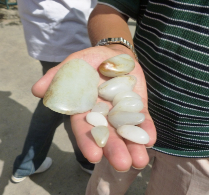 Photo of white (or "mutton fat") jade taken at Khotan Jade Market next to the White Jade River in Khotan